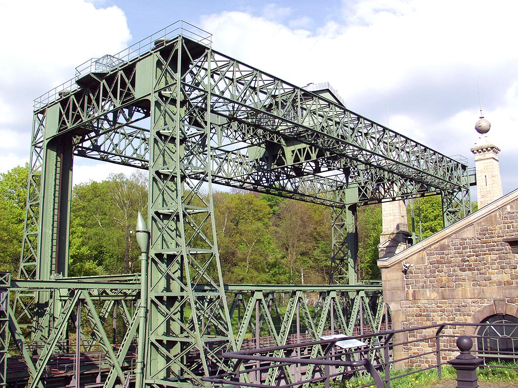 The old boat lift at Henrichenburg, Germany